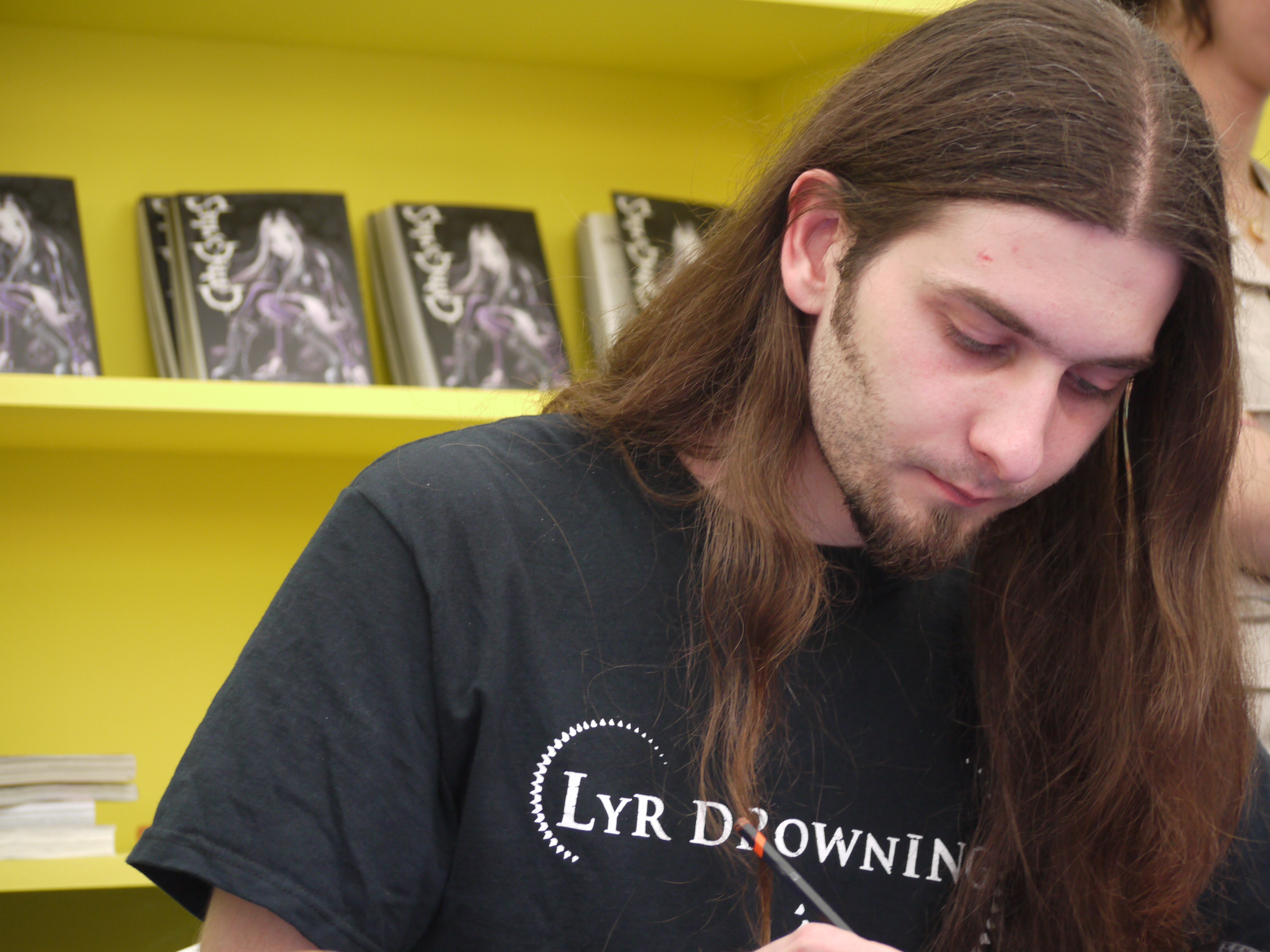 Photograph taken during the 2009 edition of the Comic Strip Festival named "O Tour de la Bulle" of Montpellier.